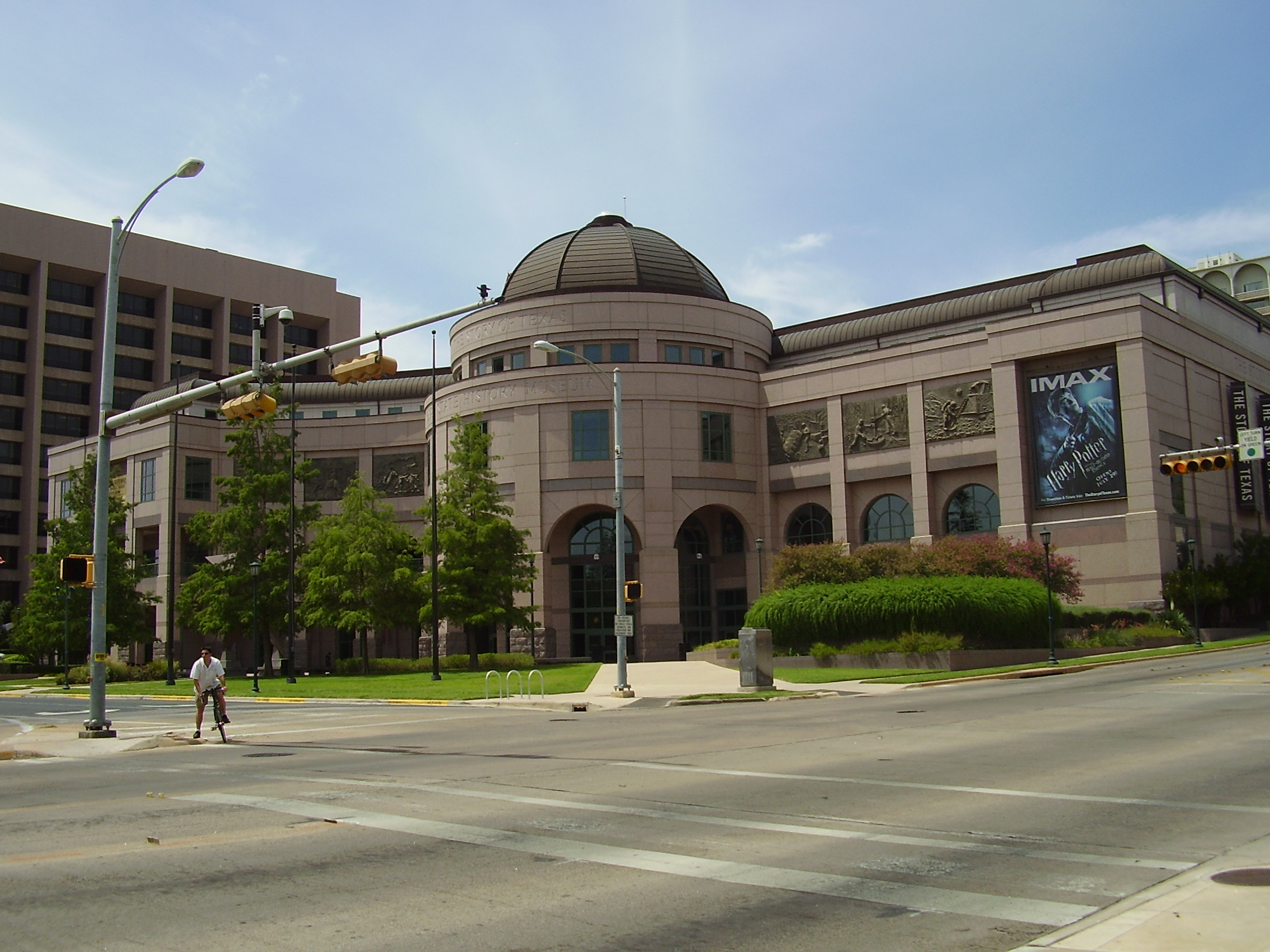 Bob Bullock Texas State History Museum